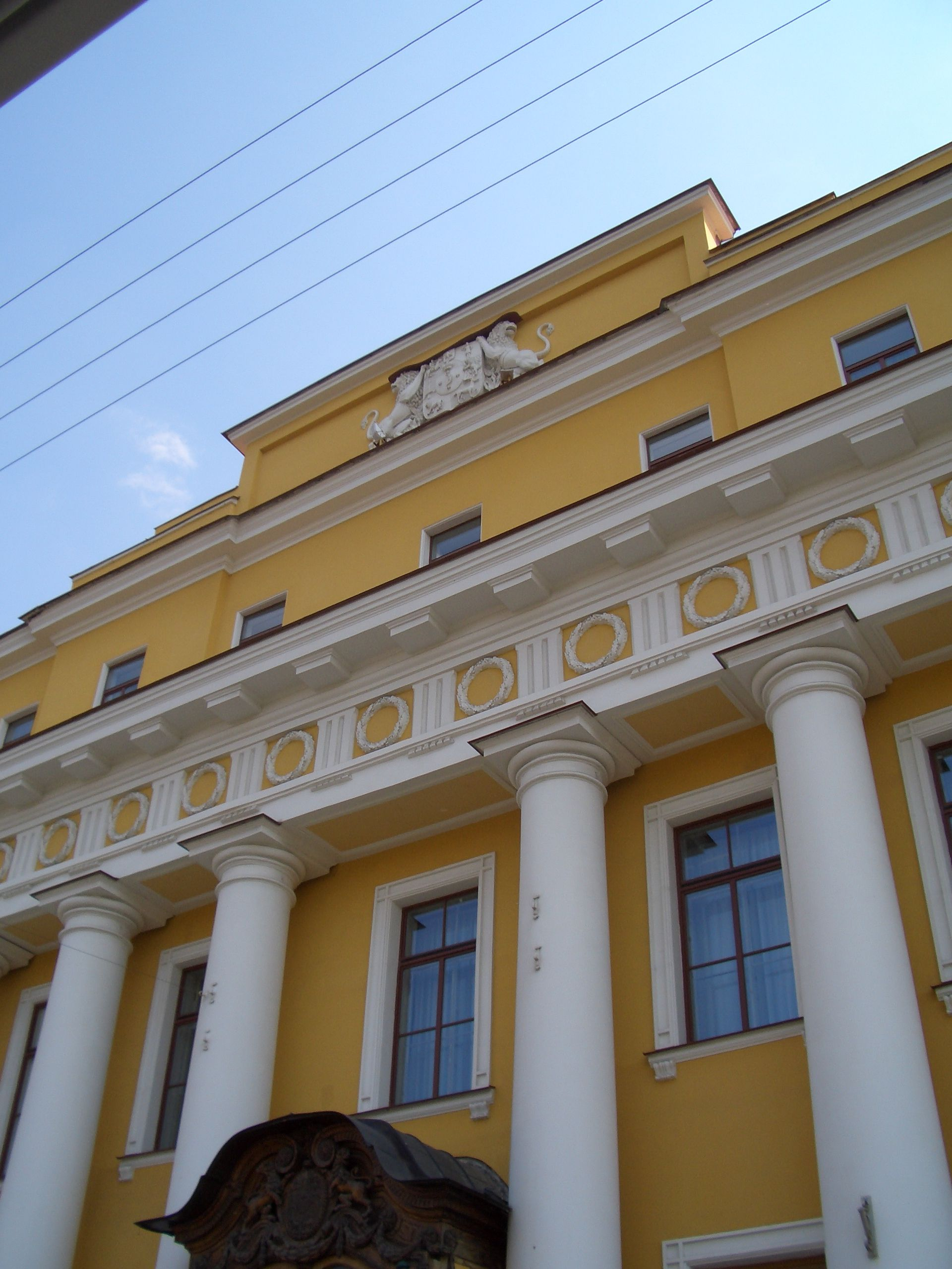 Saint Petersburg (Russia), Moika Palace or Yusupov Palace.